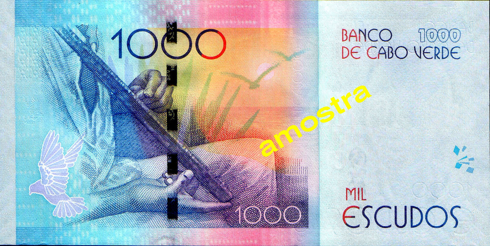 2014: new 1.000 CVE bank note with Codé di Dona (back)